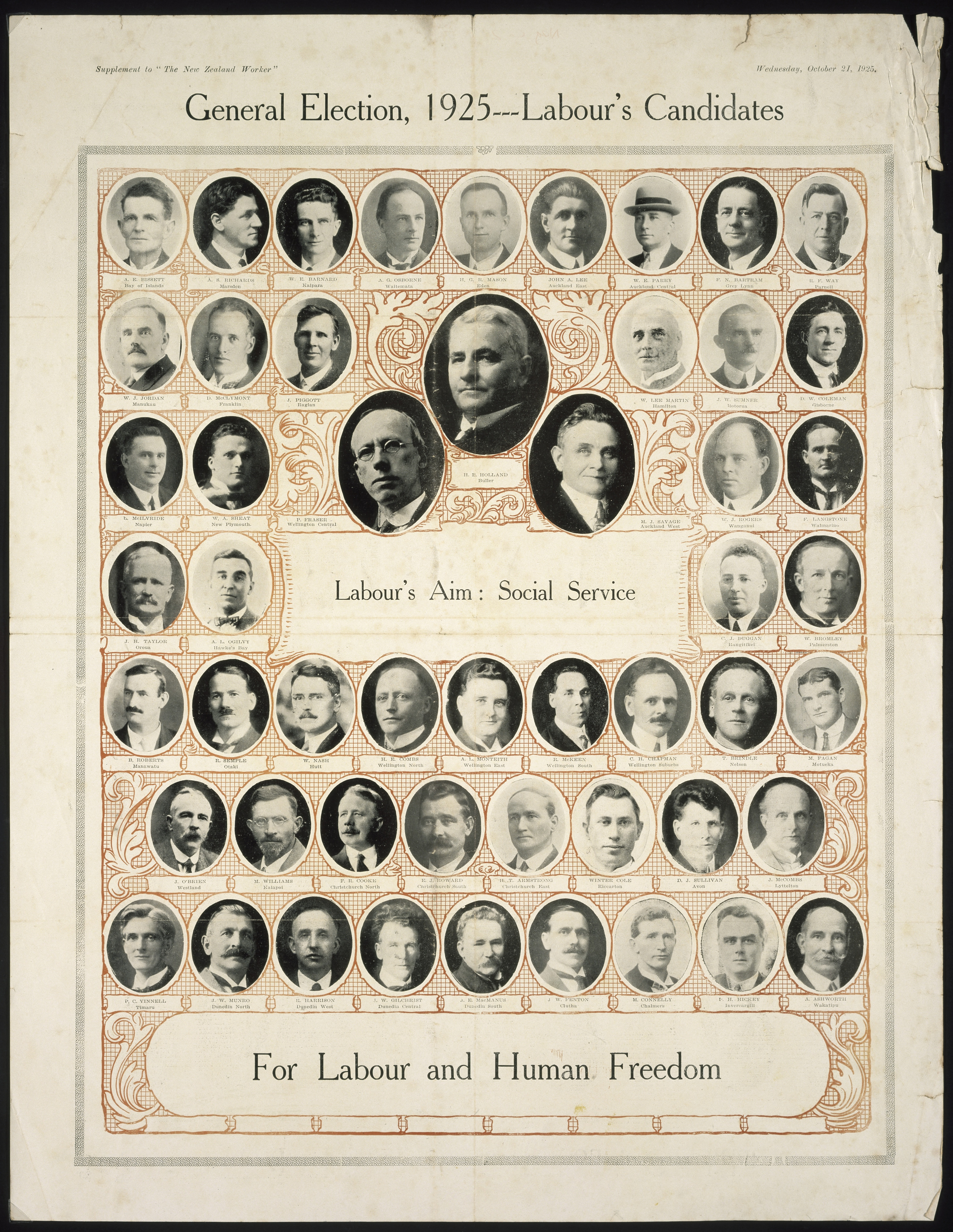 New Zealand Labour Party :General election, 1925 - Labour's candidates. Labour's aim - Social service. For Labour and human freedom. Supplement to "The New Zealand Worker", Wednesday, October 21, 1925. hows a central group of three politicians: H E Holland, P Fraser and M J Savage. Around these three are arranged portraits of 49 other candidates: A E Bissett (Bay of Islands); A S Richards (Marsden); W E Barnard (Kaipara); A G Osborne (Waitemata); H G R Mason (Eden); John A Lee (Auckland East); W E Parry (Auckland Central); F N Bartram (Grey Lynn); R F Way (Parnell); W J Jordan (Manukau), D McClymont (Franklin); J Piggot (Raglan); W Lee Martin (Hamilton); J W Summer (Rotorua); D W Coleman (Gisborne); L McIlvride (Napier); W A Sheat (New Plymouth); W J Rogers (Wanganui); F Langstone (Waimarino); J H Taylor (Oroua); A L Ogilvy (Hawke's Bay); C J Duggan (Rangitikei); Walter Bromley (Palmerston); B Roberts (Manawatu); R Semple (Otaki); W Nash (Hutt); H E Combs (Wellington North); A L Monteith (Wellington East); R McKeen (Wellington South); C H Chapman (Wellington Suburbs); T Brindle (Nelson); M Fagan (Motueka); J O'Brien (Westland); M Williams (Kaiapoi); F R Cooke (Christchurch North); E J Howard (Christchurch South); H T Armstrong (Christchurch East); Winter Cole (Riccarton); D G Sullivan (Avon); J McCombs (Lyttelton); P C Vinnell (Timaru); J W Munro (Dunedin North); R Harrison (Dunedin West); J W Gilchrist (Dunedin Central); J E McManus (Dunedin South); J W Fenton (Clutha); M Connelly (Chalmers); P H Hickey (Invercargill); A Ashworth (Wakatipu). The verso gives biographical notes about each of the candidates.